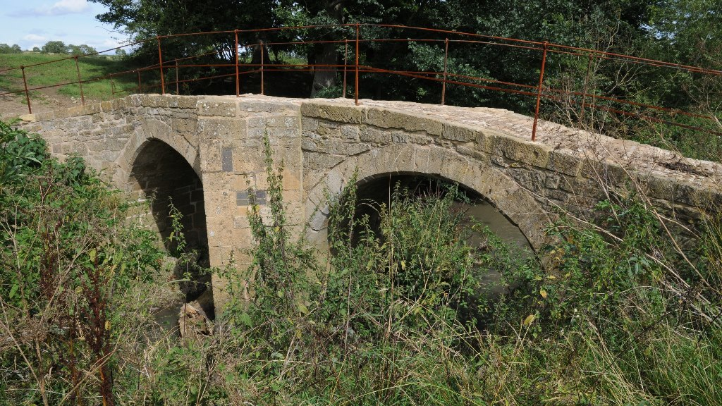 Ancient Packhorse bridge, looking towards Tidmington over the parish boundary with Todenham, nearest the camera.